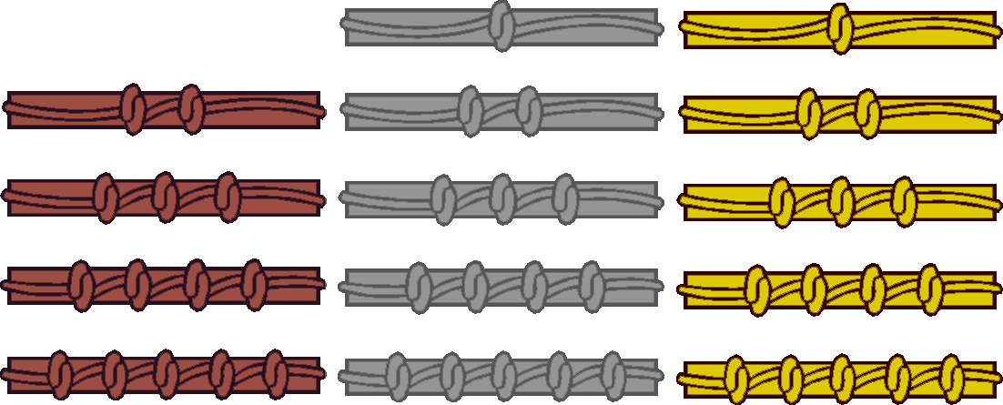 Army Good Conduct Medal Subsequent Award Clasp The second and subsequent awards are indicated by the wear of the clasp with loop on the ribbon. Bronze clasps indicate the second (two loops) through fifth award (five loops); Silver clasps indicate sixth (one loop) through tenth award (five loops); and Gold clasps indicate eleventh (one loop) through the fifteenth award (five loops).